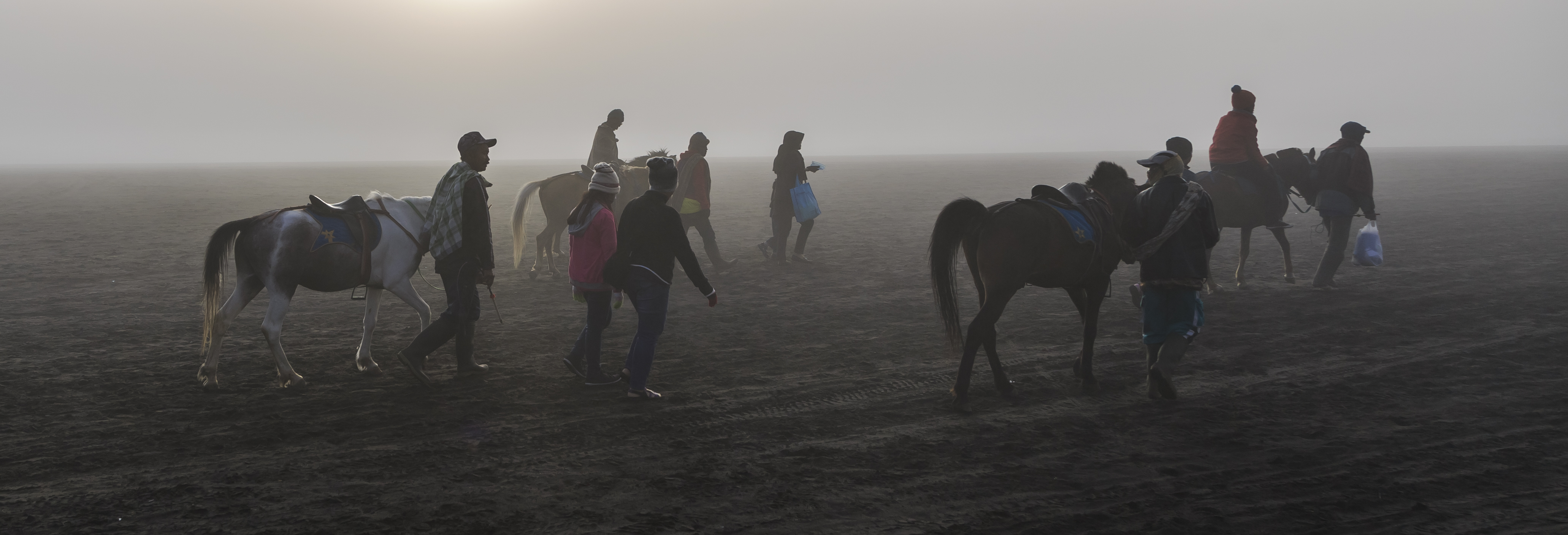 Bromo Tengger Semeru National Park, East Java, Indonesia: Java Pony's (Equus ferus caballus) on their way to the volcano.